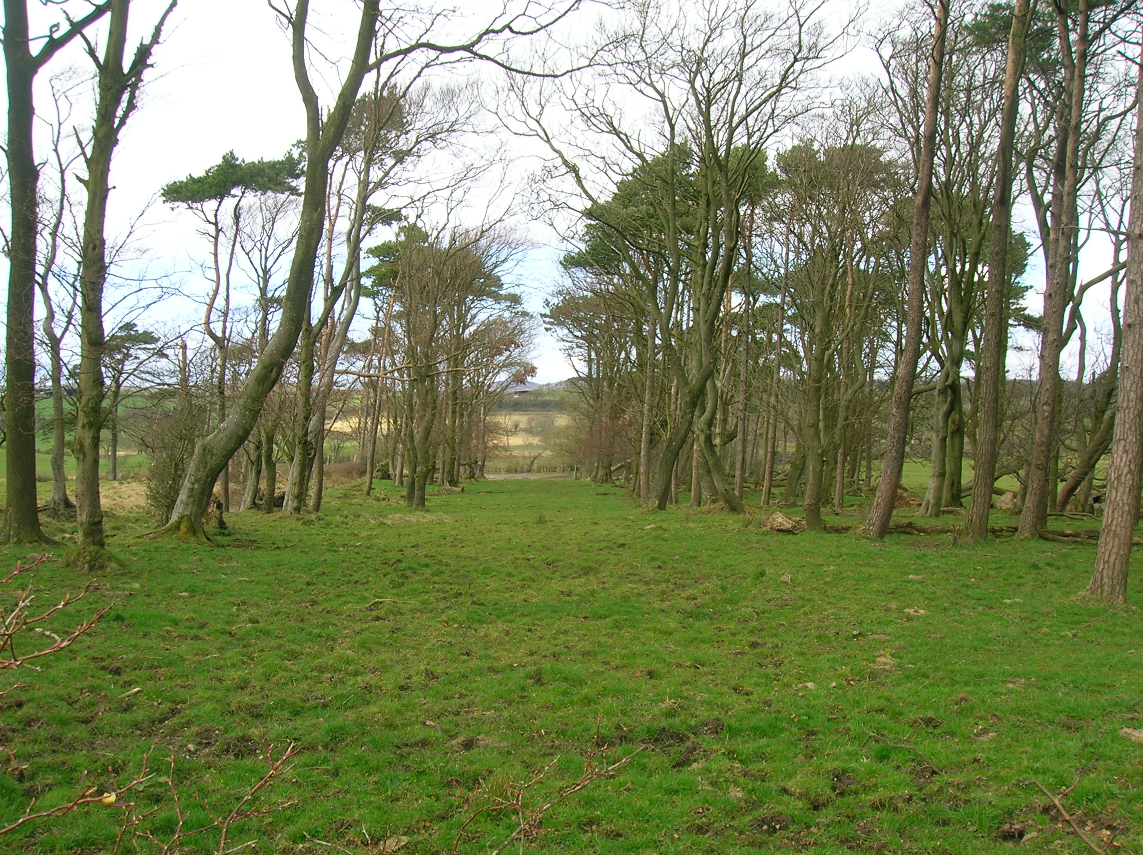 The old entrance driveway to Ashgrove House, North Ayrshire, Scotland.